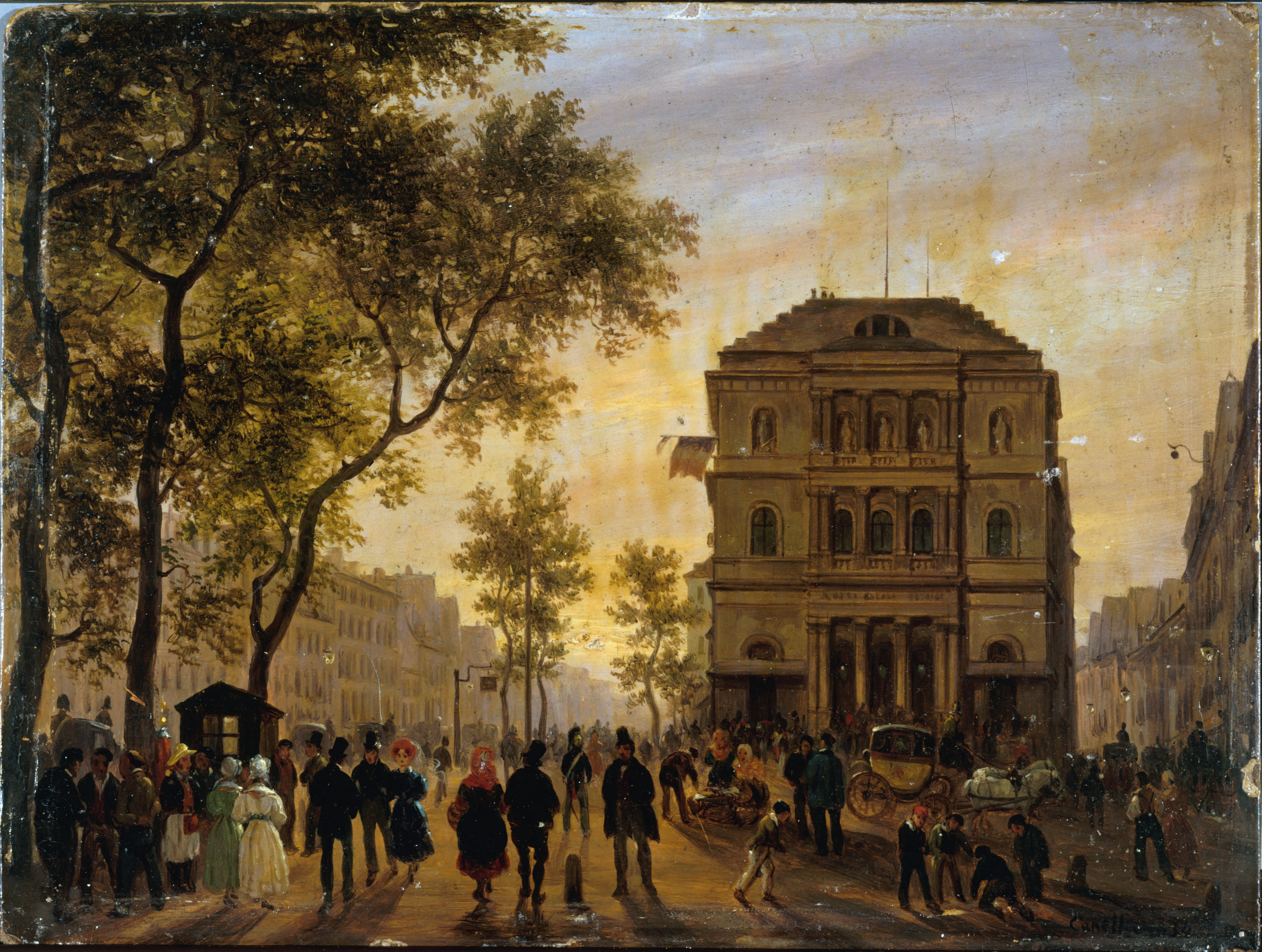 Théatre de l'Ambigu-Comique by Jacques Ignace Hittorff (1792–1867), architect and Jean-François-Joseph Lecointe (1783–1858), architect.